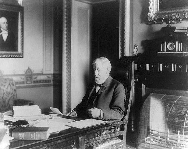 American politician James G. Blaine.